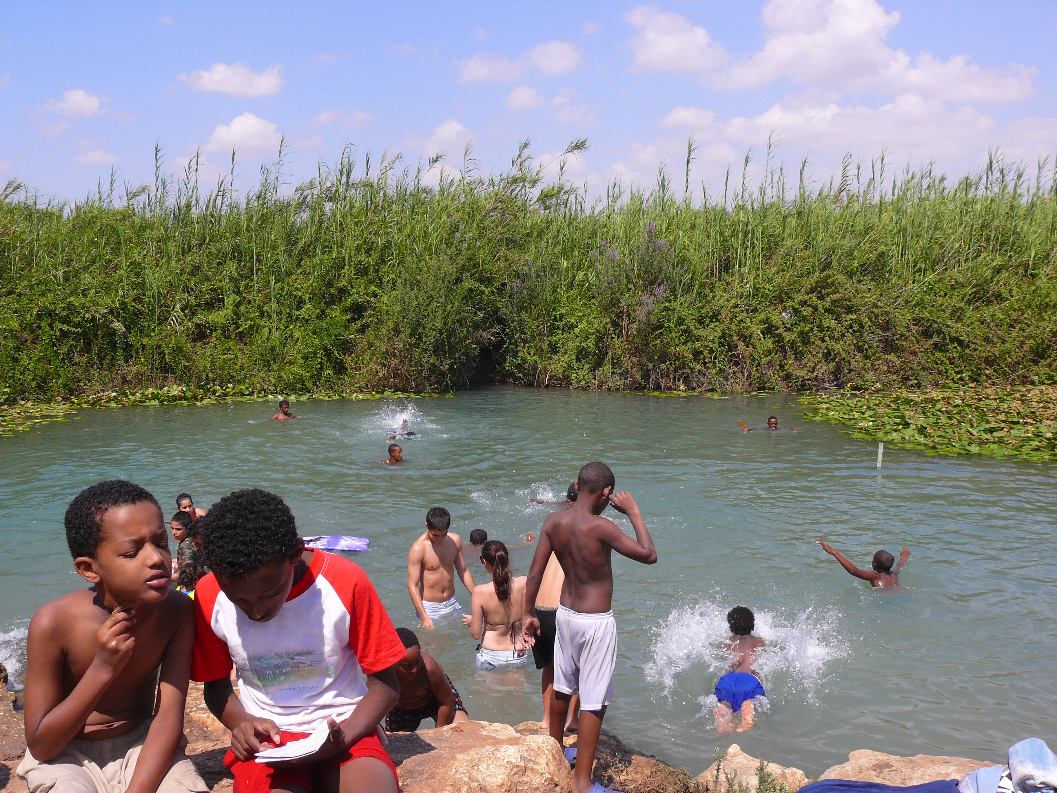 Israelies bathing in a pond created by the Yarkon River, near Rosh HaAyin